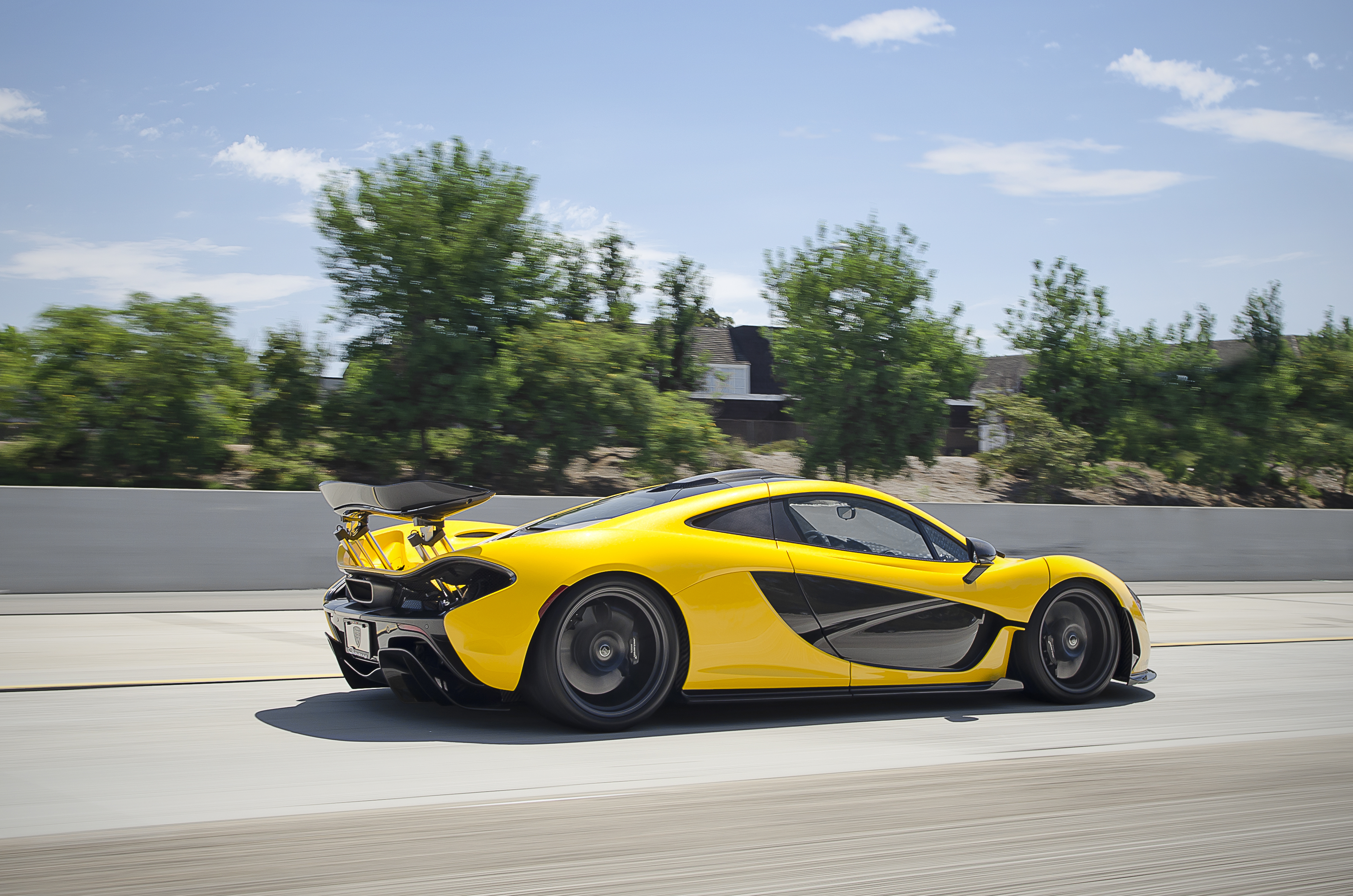 Volcano Yellow McLaren P1 Driving in Race Mode.